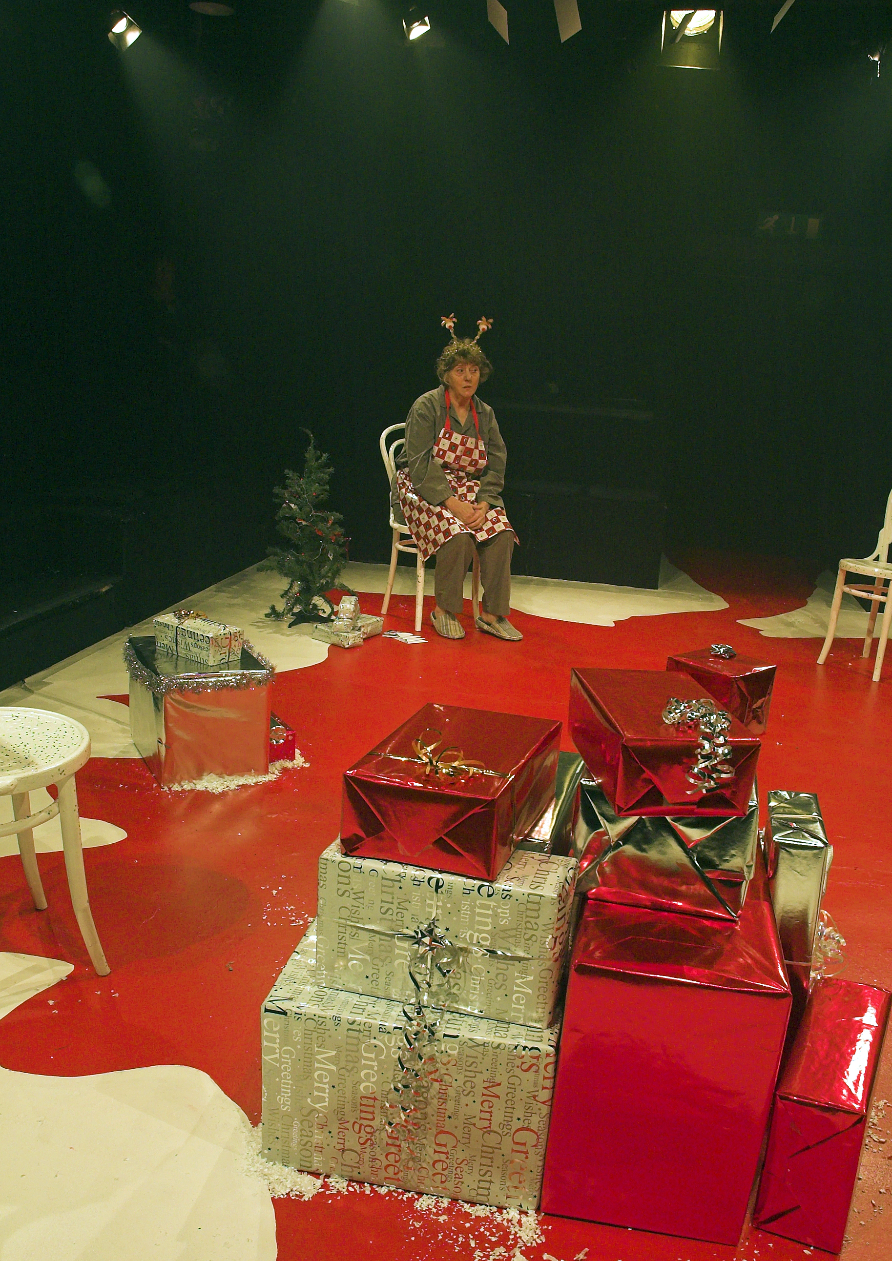 Community created set design for Wicked Christmas show at Citizens Theatre